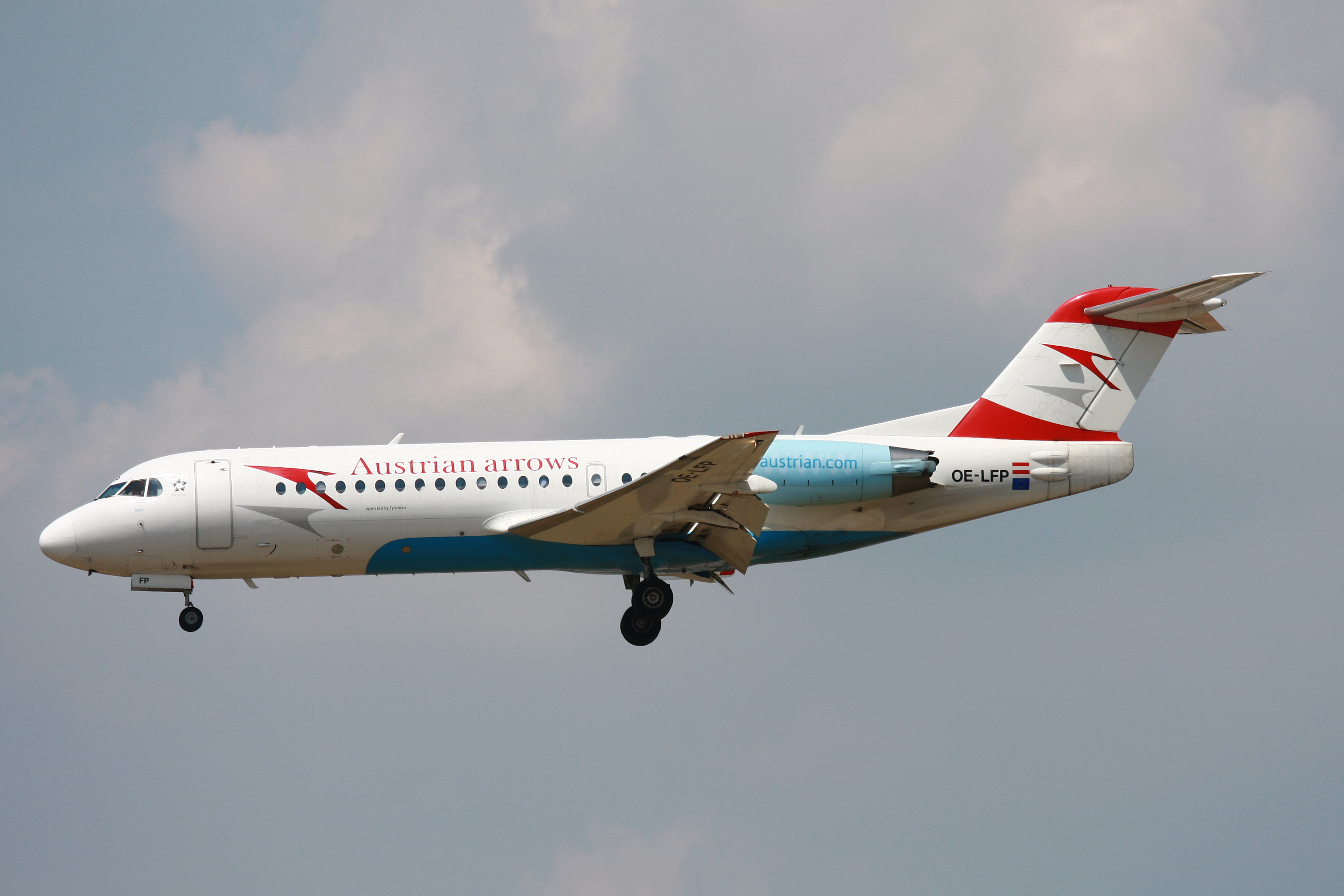 A Fokker 70 of Austrian Arrows landing at Frankfurt Airport